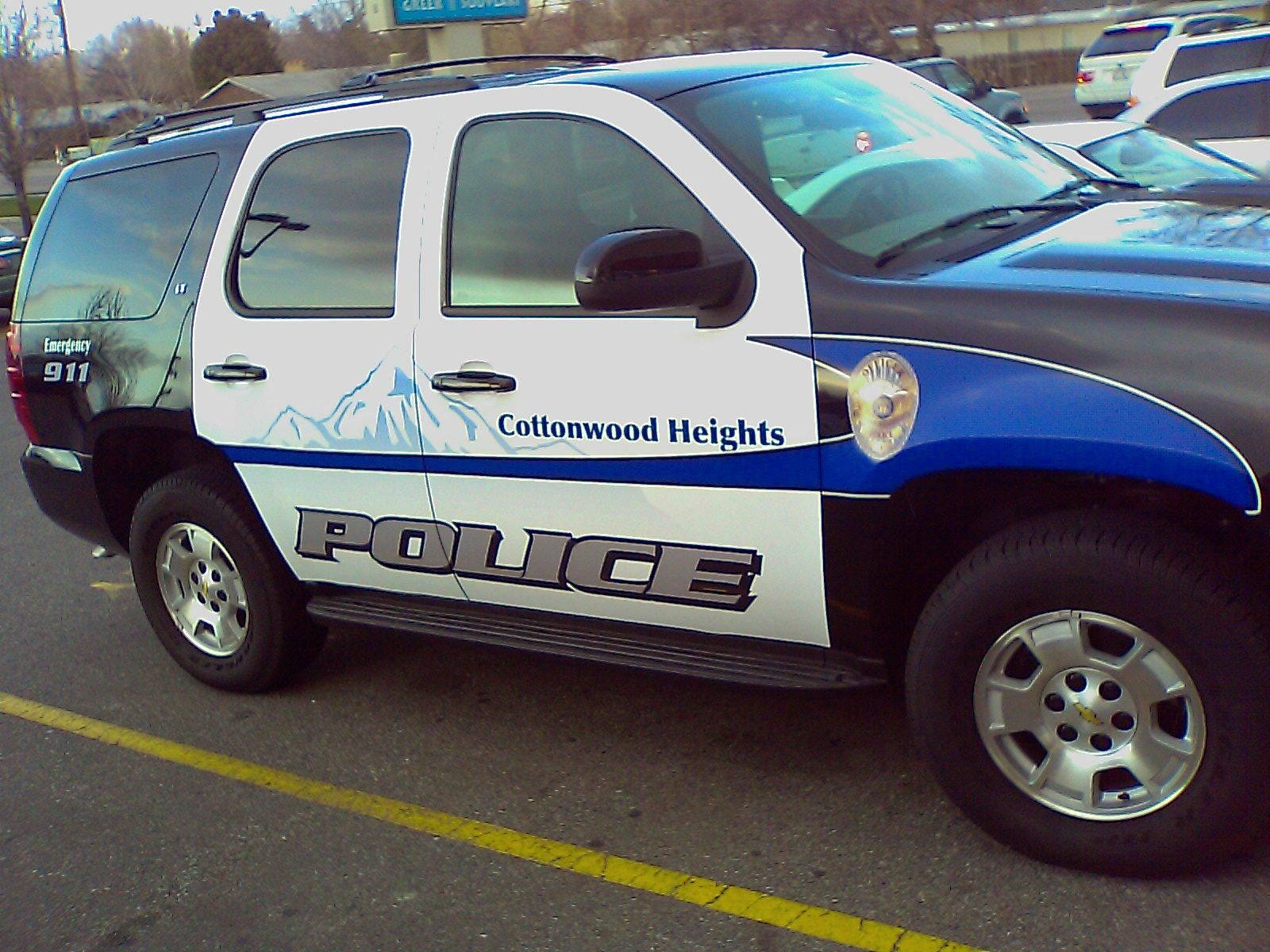 A Chevrolet Tahoe used by the Cottonwood Heights (Utah) Police.